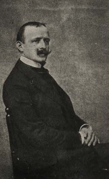 Polish doctor